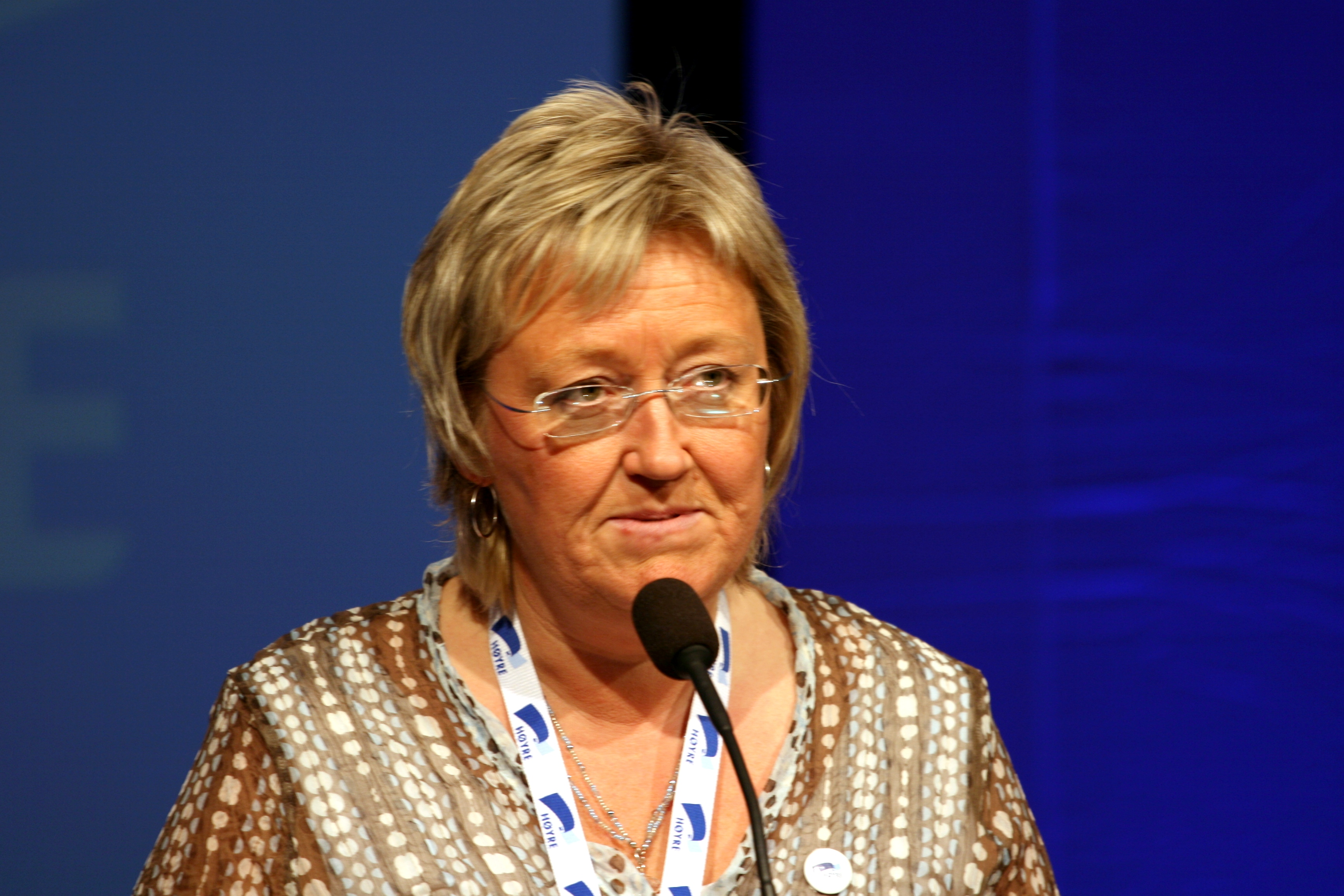 Elisabeth Aspaker, Norwegian politician (Conservative Party).